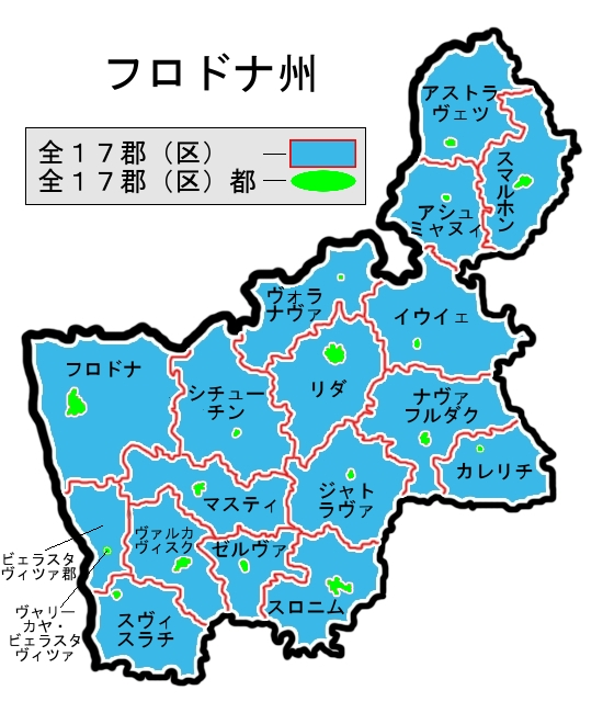 This is the map of Grodno Oblast, Belarussian in Japanese Names.